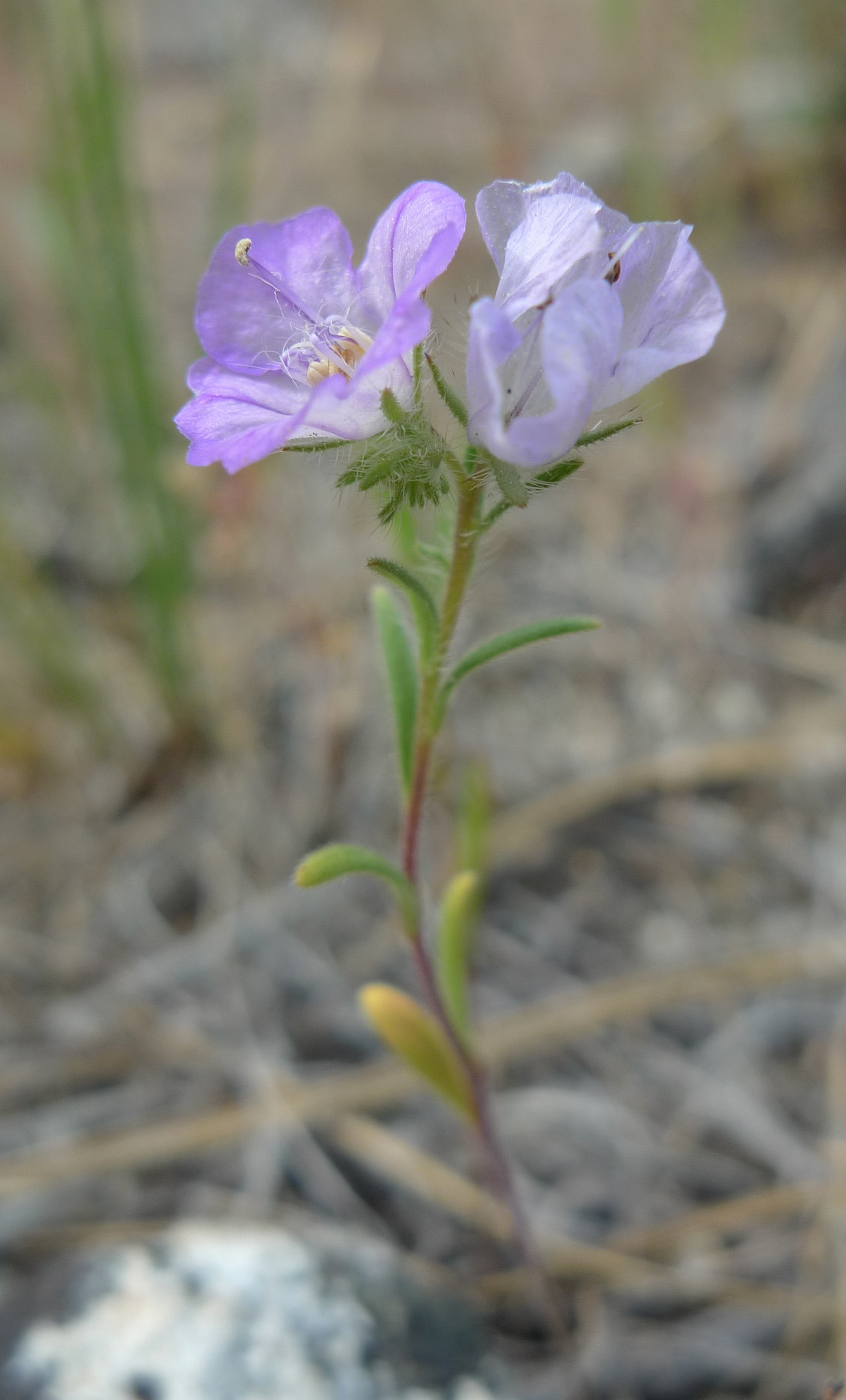 Phacelia linearis in Icicle Canyon, Chelan County Washington